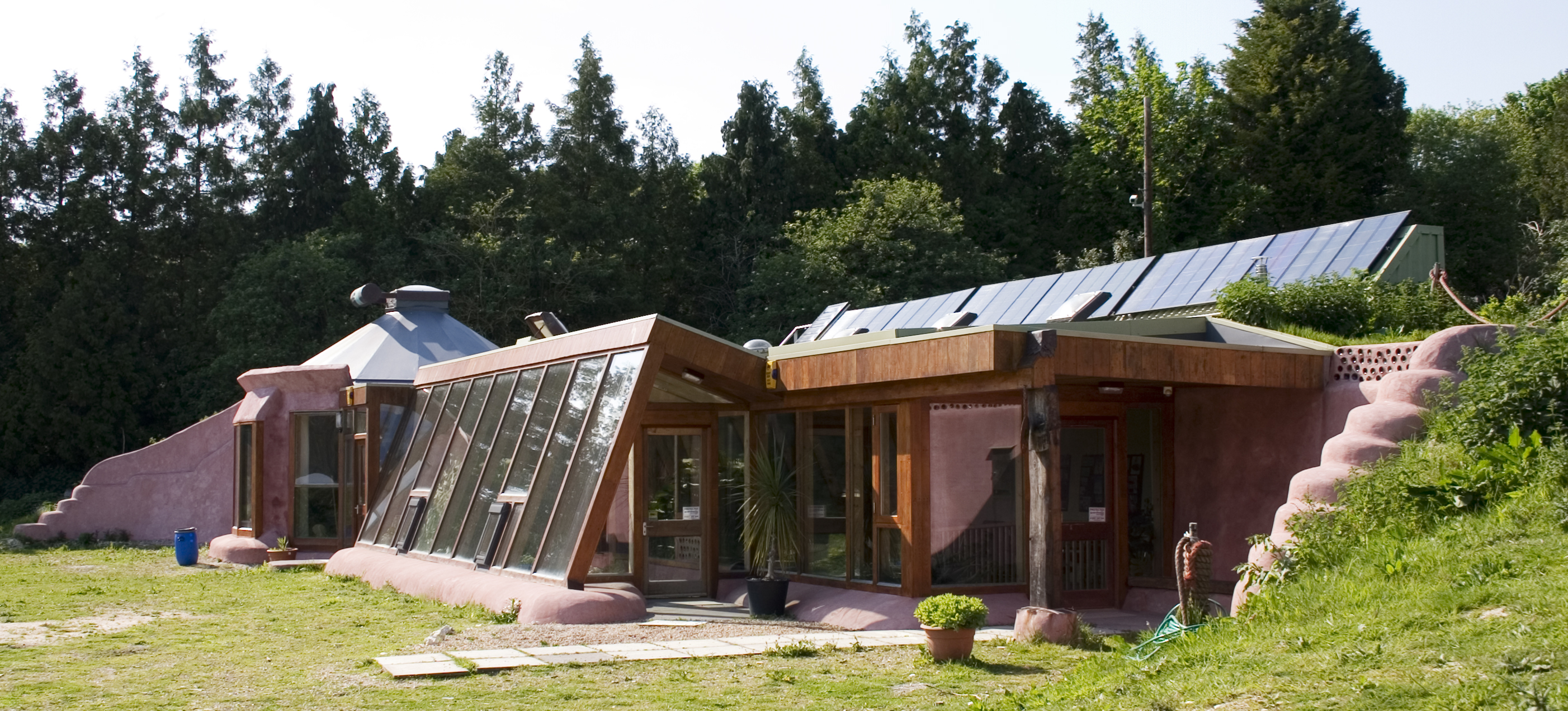 Original description on flickr: Brighton Earthship Front / Right Elevation An image taken at or near the Brighton Earthship located near Stanmer Park, Brighton, East Sussex. The Earthship - the first built in the UK - is an experimental sustainable development which includes the following features: photovoltaic solar cells, collection of rainwater from the roof, a windmill, using the thermal storage property of the ground (by building "hobbit like" into a hillside), reuse of rubber tires as a building material for the walls. No one lives here, but regular tours are available by arrangement.